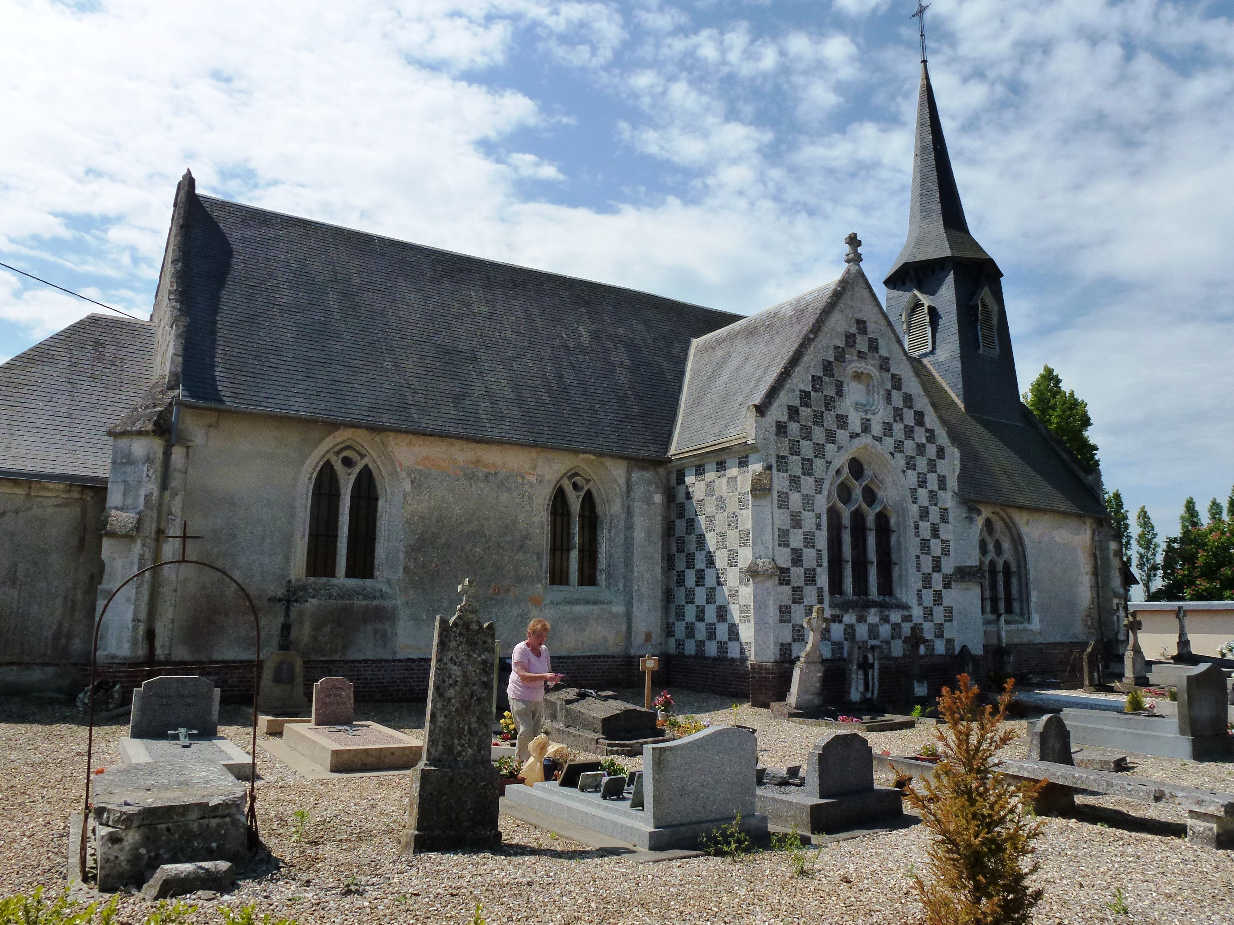 Perriers-la-Campagne (Eure, Fr) église Saint-Maclou